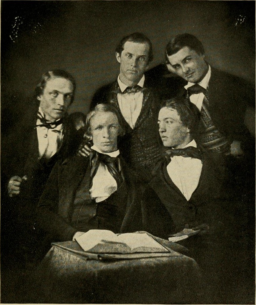 Charles Trask, Charles Brace, Fred Kingsbury, Frederick Law Olmsted, John Hull Olmsted at 1846